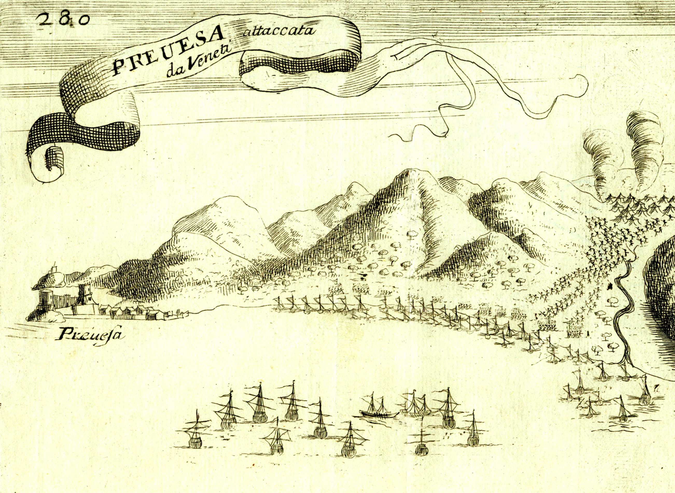 The castle of Bouka and the town of Preveza under attack by the Venetian forces in September of 1684. Detail of a copper engraving by Vincenzo Maria Coronelli, 1691. Nikos D. Karabelas map collection, Actia Nicopolis Foundation, Preveza, Greece.